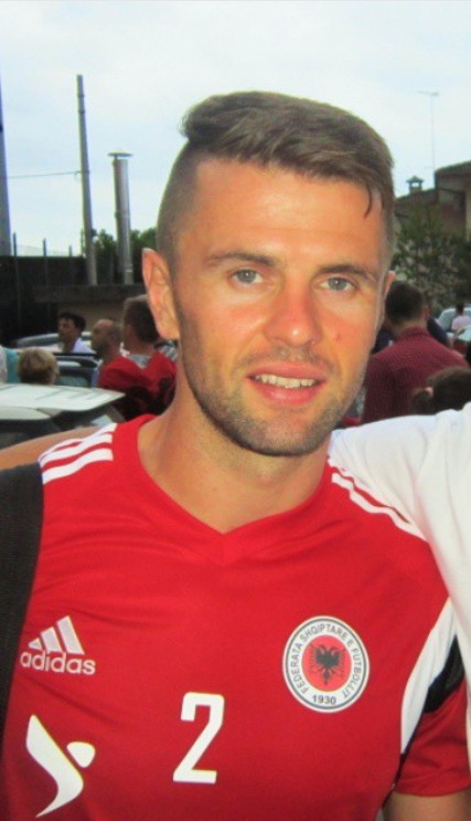 Photo of Albania national team player Andi Lila in 2015.